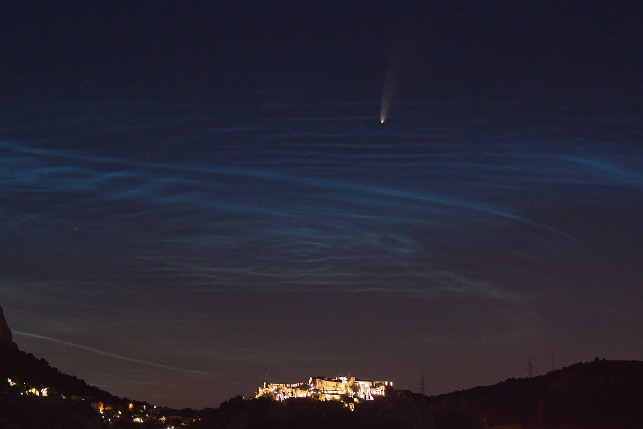 Comet C/2020 F3 (NEOWISE) over Klis fortress, Croatia, with NLC clouds.